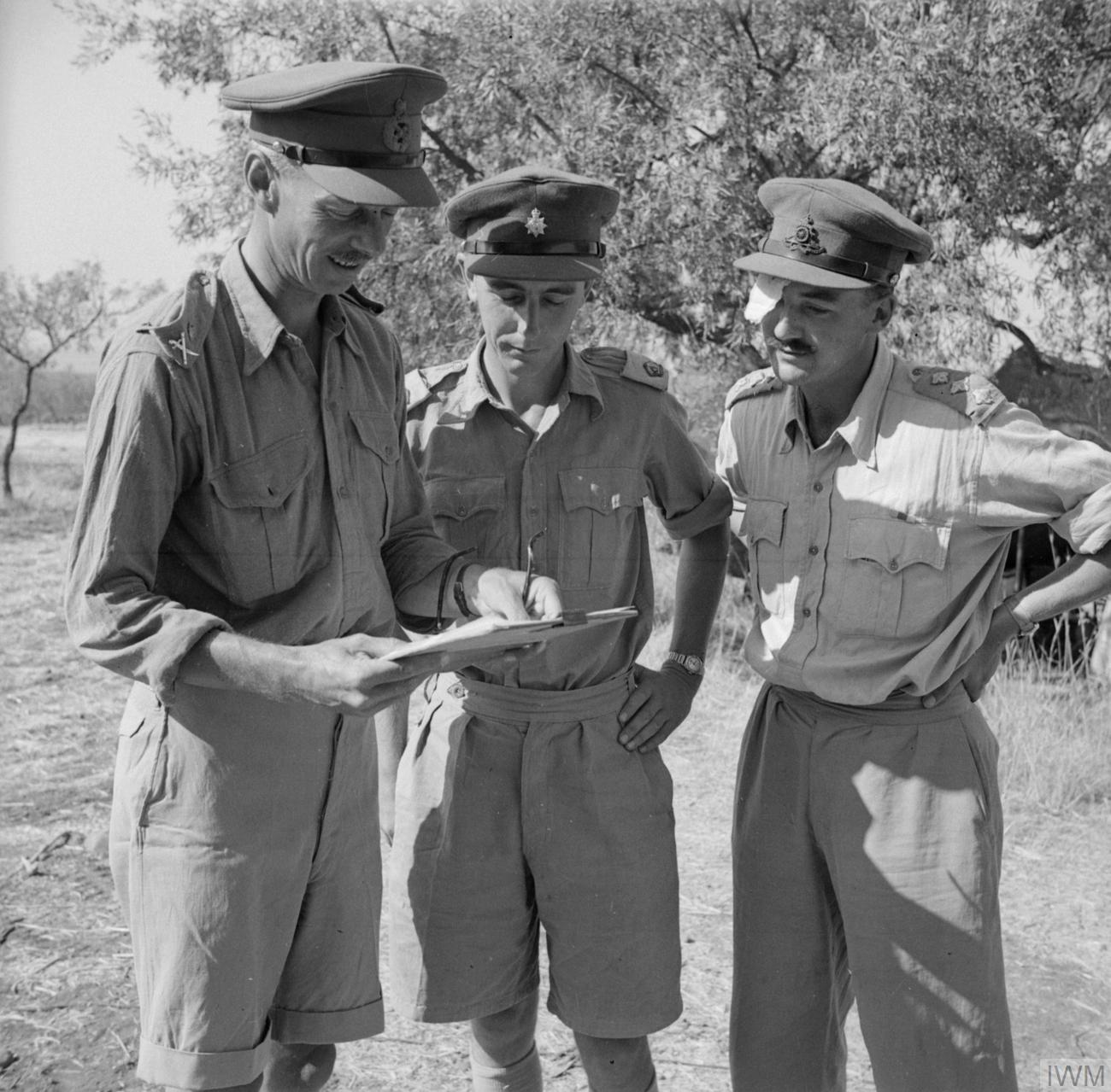 The Campaign in Sicily 1943 Personalities: The Commander of 13 Corps, Eighth Army, Lieutenant General Sir Miles Dempsey with two of his staff (Major Priestly and Captain Hay) in Sicily.